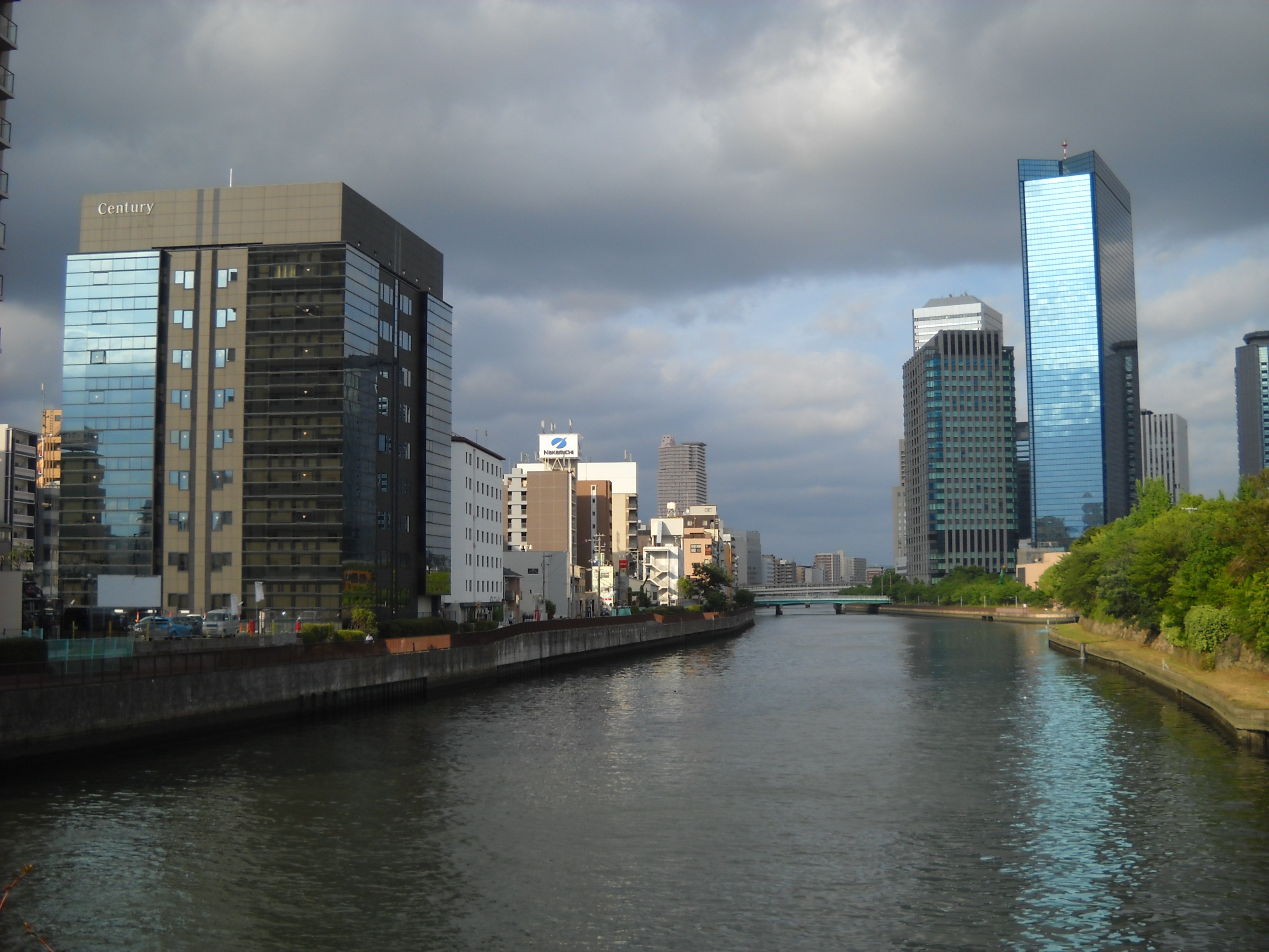 View of Osaka Business Park in 8th June 2019